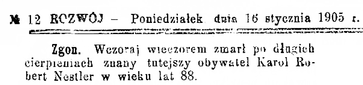 Karol Robert Nestler press release about the death Rozwój 1905